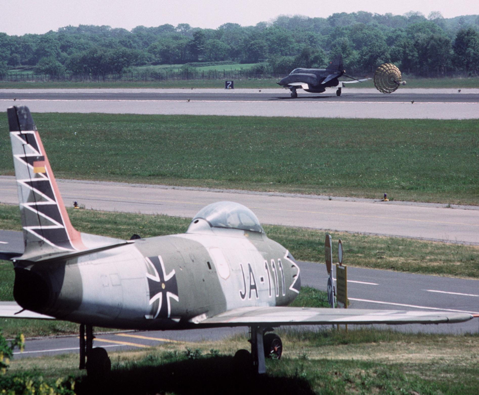 A retired German Luftwaffe Canadair CL13-B Mk6 Sabre at its former home base Wittmundhafen, Niedersachsen (Germany), 25 May 1989. The Sabre JA-111 was the personal aircraft of fighter ace Erich Hartmann, first wing commander of Jagdgeschwader 71 Richthofen (71st Fighter Wing) in 1959. The last Sabres left the wing in 1966, JA-111 is today preserved at the German Luftwaffe Museum at Berlin-Gatow. A JG 71 McDonnell Douglas F-4F Phantom II is landing in the background.